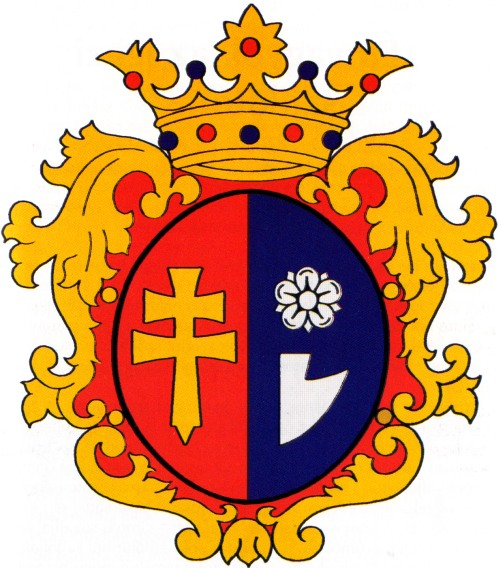 Coat of arms of Zics, Hungary